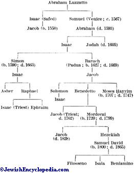 The genealogy of the Luzzatto family of Italian-Jewish scholars.